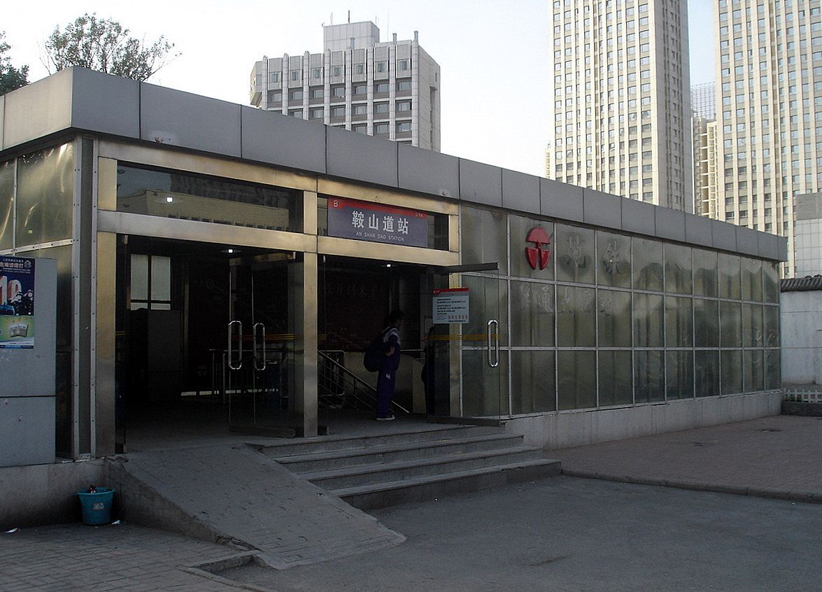 ANSHAN RD ST. (LINE 1)